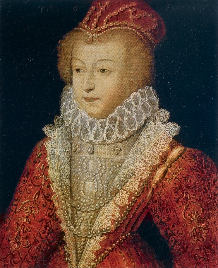 Marguerite de Valois, Queen of France, first wife of Henry IV, tempera (?) on wood. The drawn original is located in BNF (Copie in the Musée Crozatier, Le Puy-en-Valey). This image shows a copy of the original in the museum of Blois.